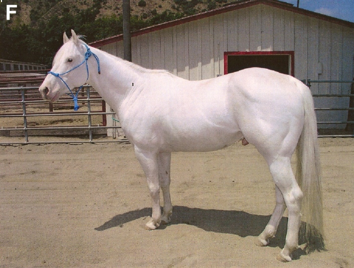 (F) Camarillo White Horse.